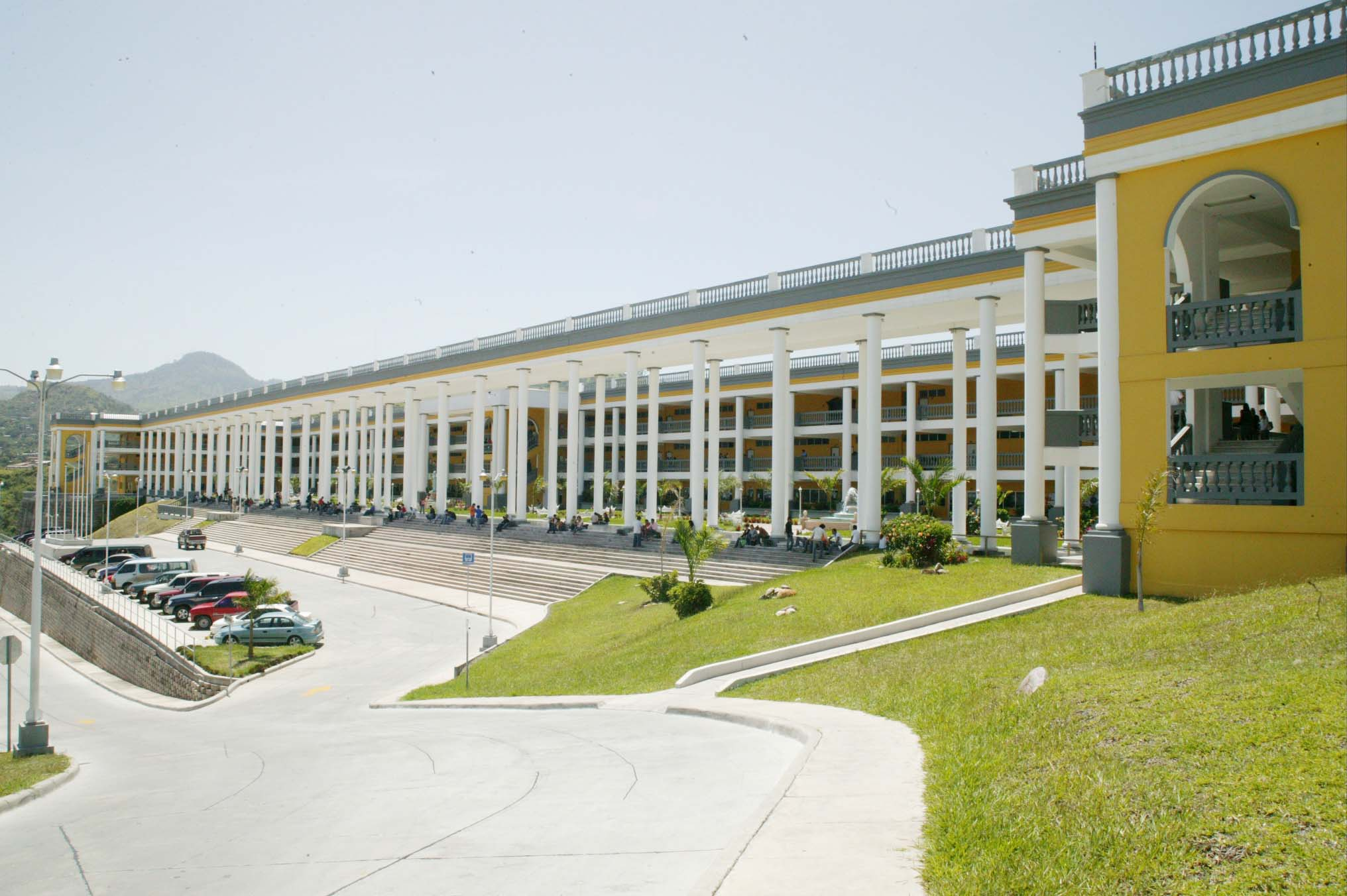 Vista del Campus UTH en Tegucigalpa